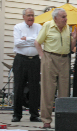 Left - Carroll Shelby, one of the automotive industry's greatest legends. Right - Chris Economaki is a legendary American motorsports commentator, pit road reporter, and journalist. Chris Economaki has been given the title "The Dean of American Motorsports". Both at Virginia International Raceway's 50th Anniversary Celebration 2007 (Photo by Sherry Lambert)